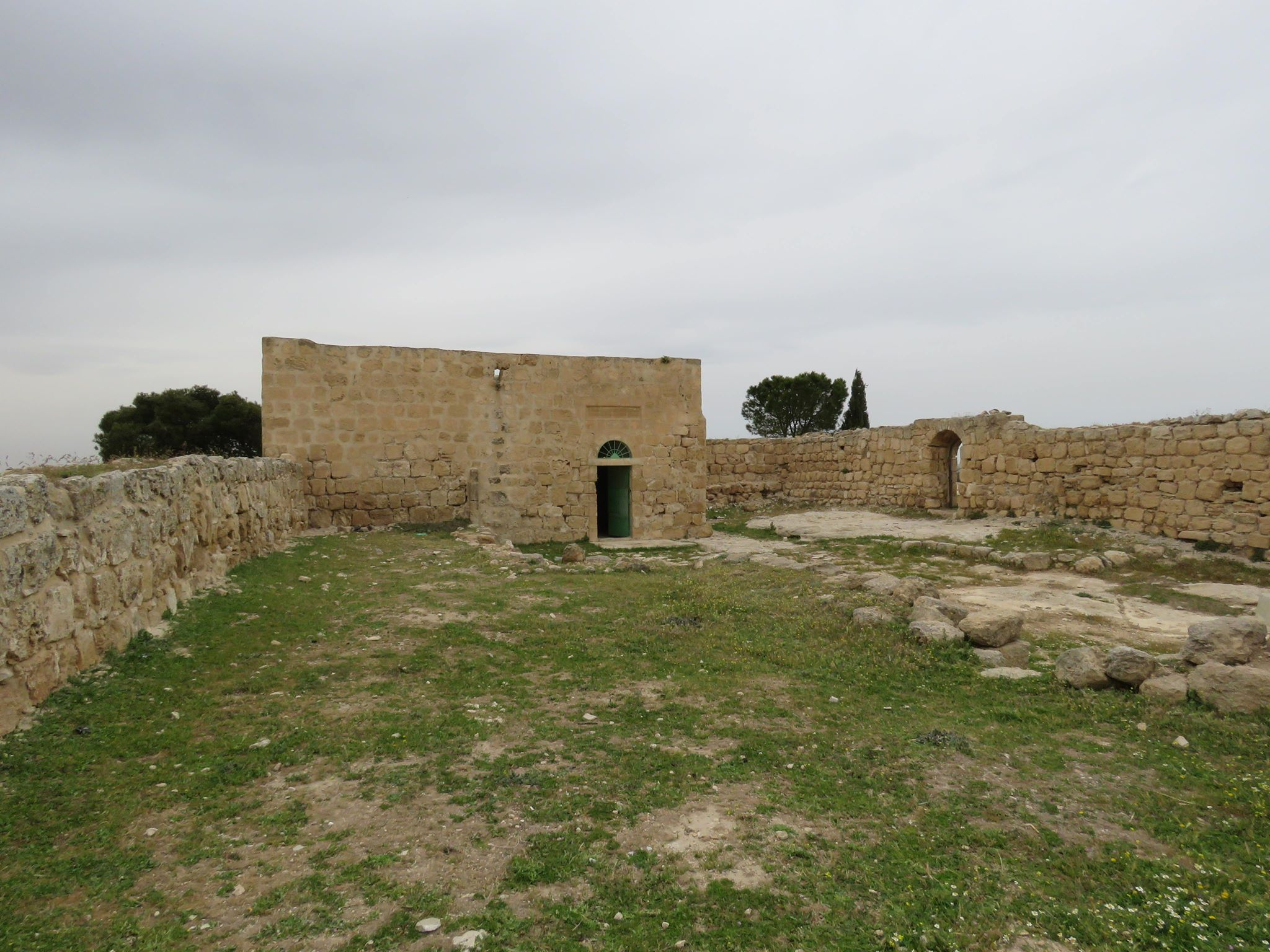 Maqam nabi Yaqin, Bani Na'im, Palestine